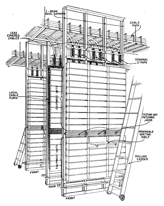 Diagram of replay racks with telephone equipment mount on vertical rails. This system was standardized for use in Bell System central offices in 1922-23. Original caption: "Fig. 28 — General View Showing Typical Group of Equipment Units Employing Panel Mounting Method"